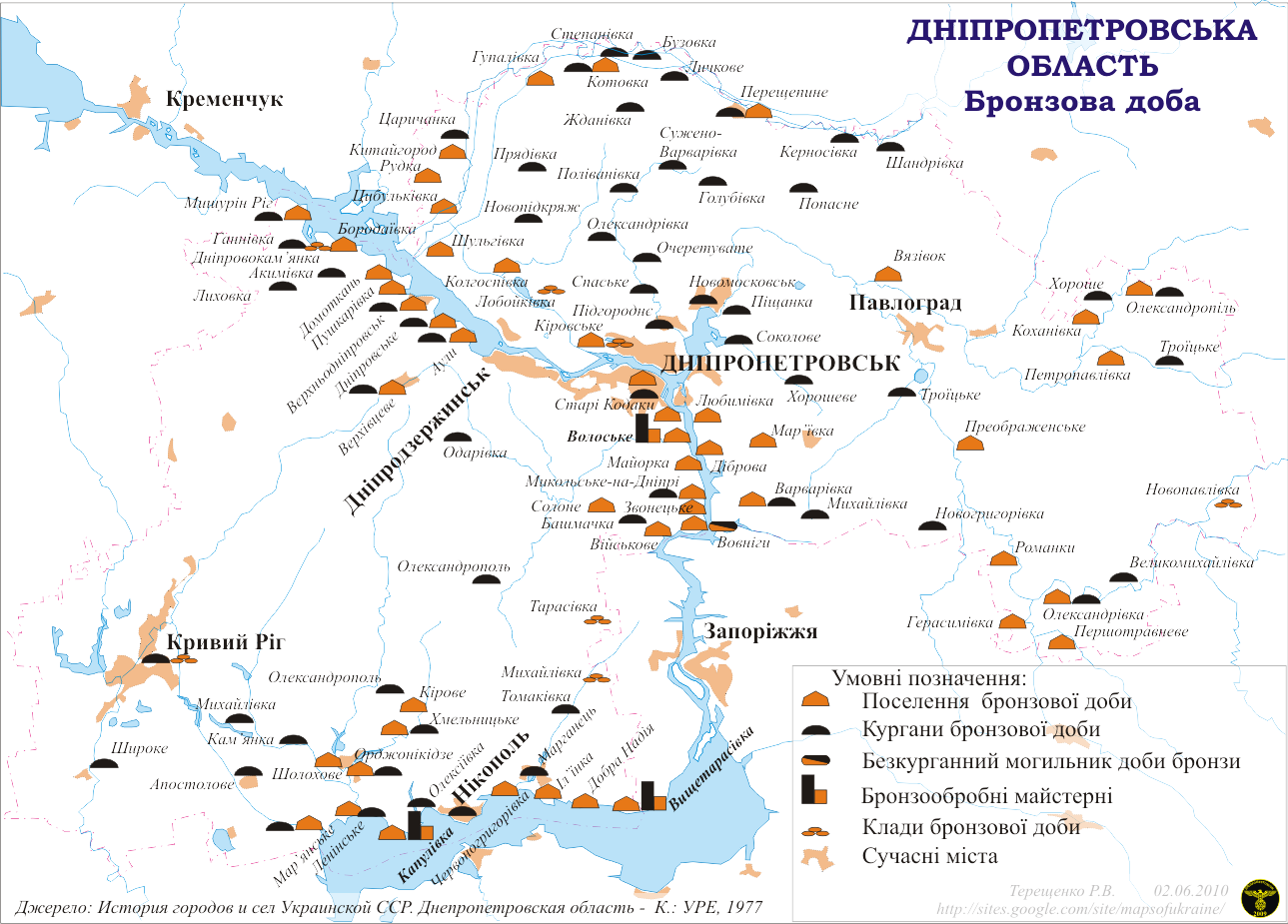 Dnipropetrovsk region. Bronze Age archaeological sites.